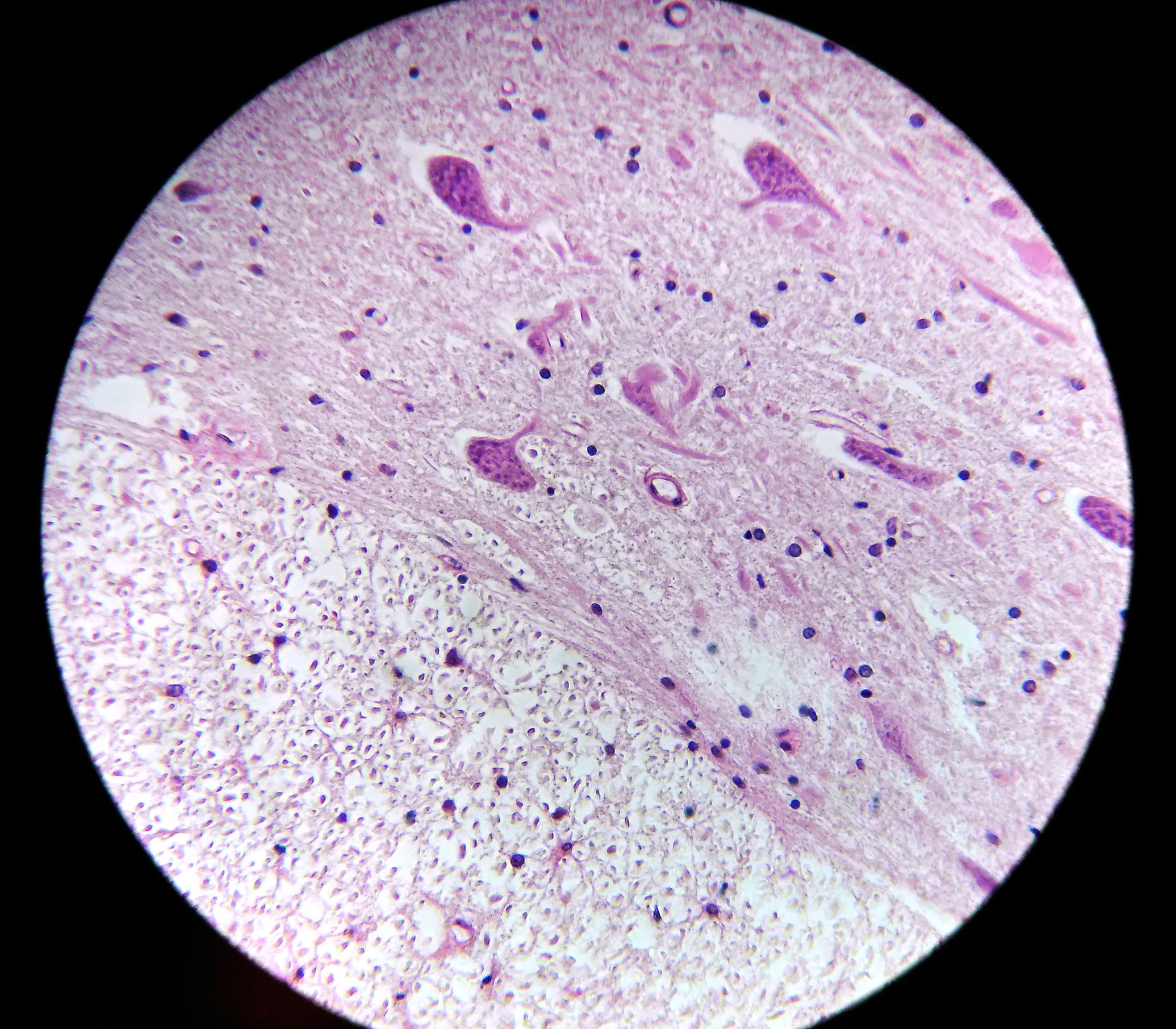 Multipolar neurons - medulla spinalis (HE)